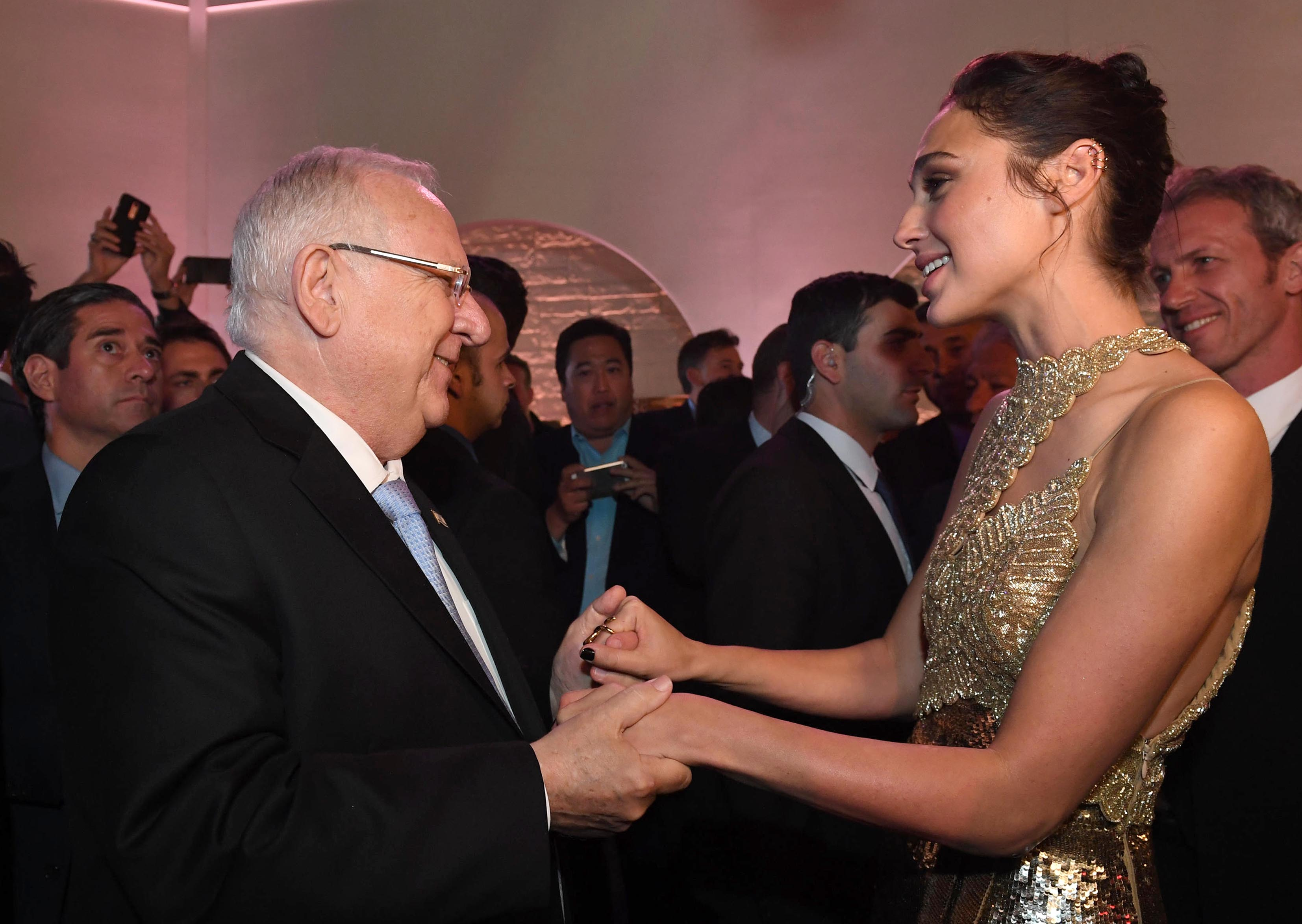 President Reuven Rivlin met with actress Gal Gadot. Tuesday, November 14, 2017. Photo Credit: Mark Neyman (GPO).